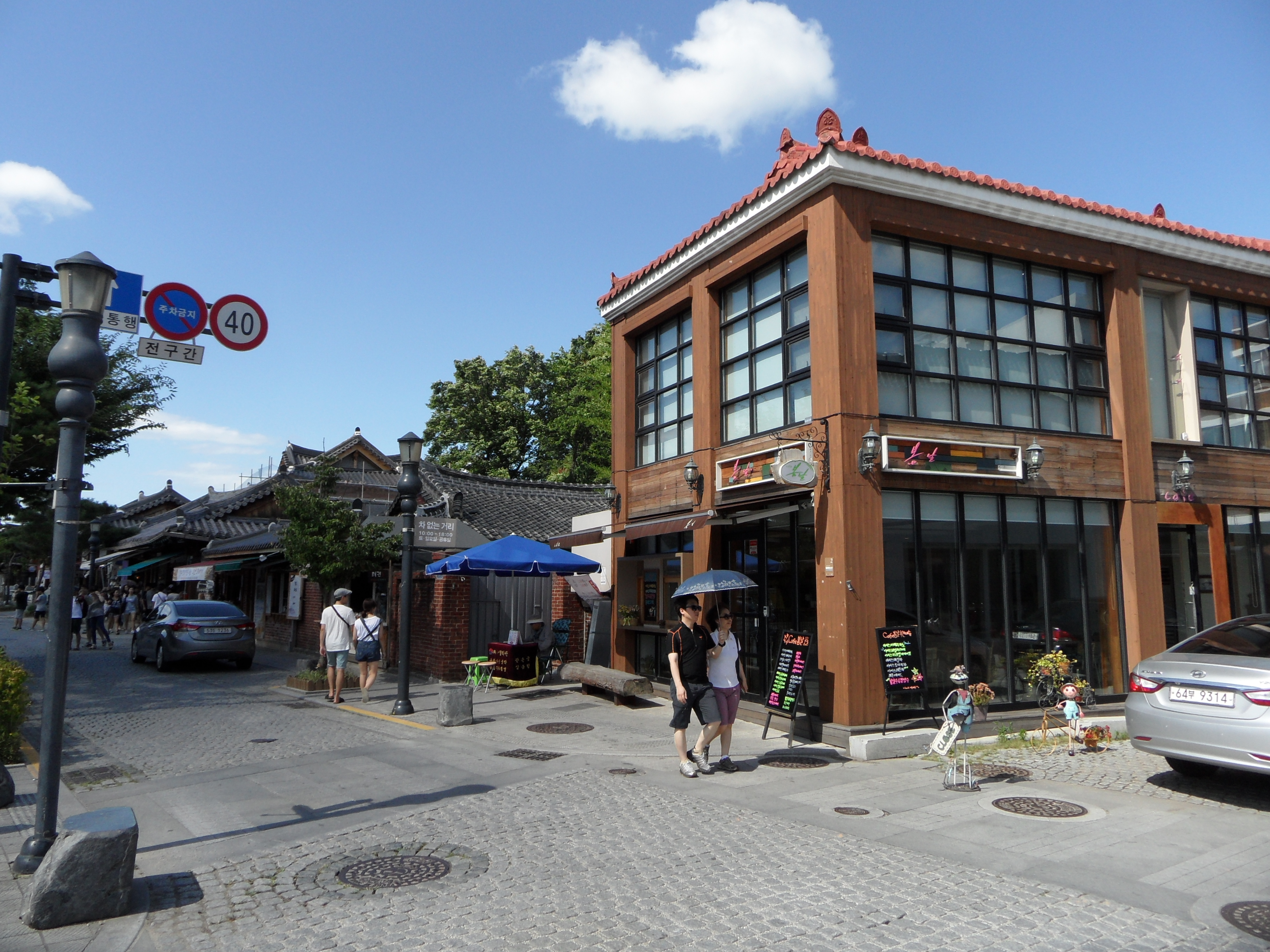 Hanock Village - 2014 (3).